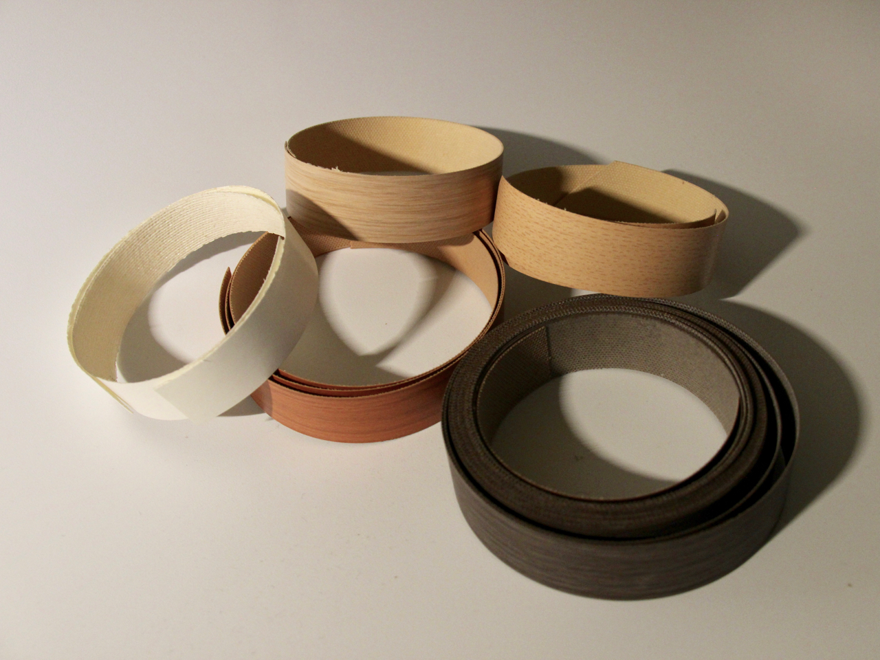 Iron-on edge banding